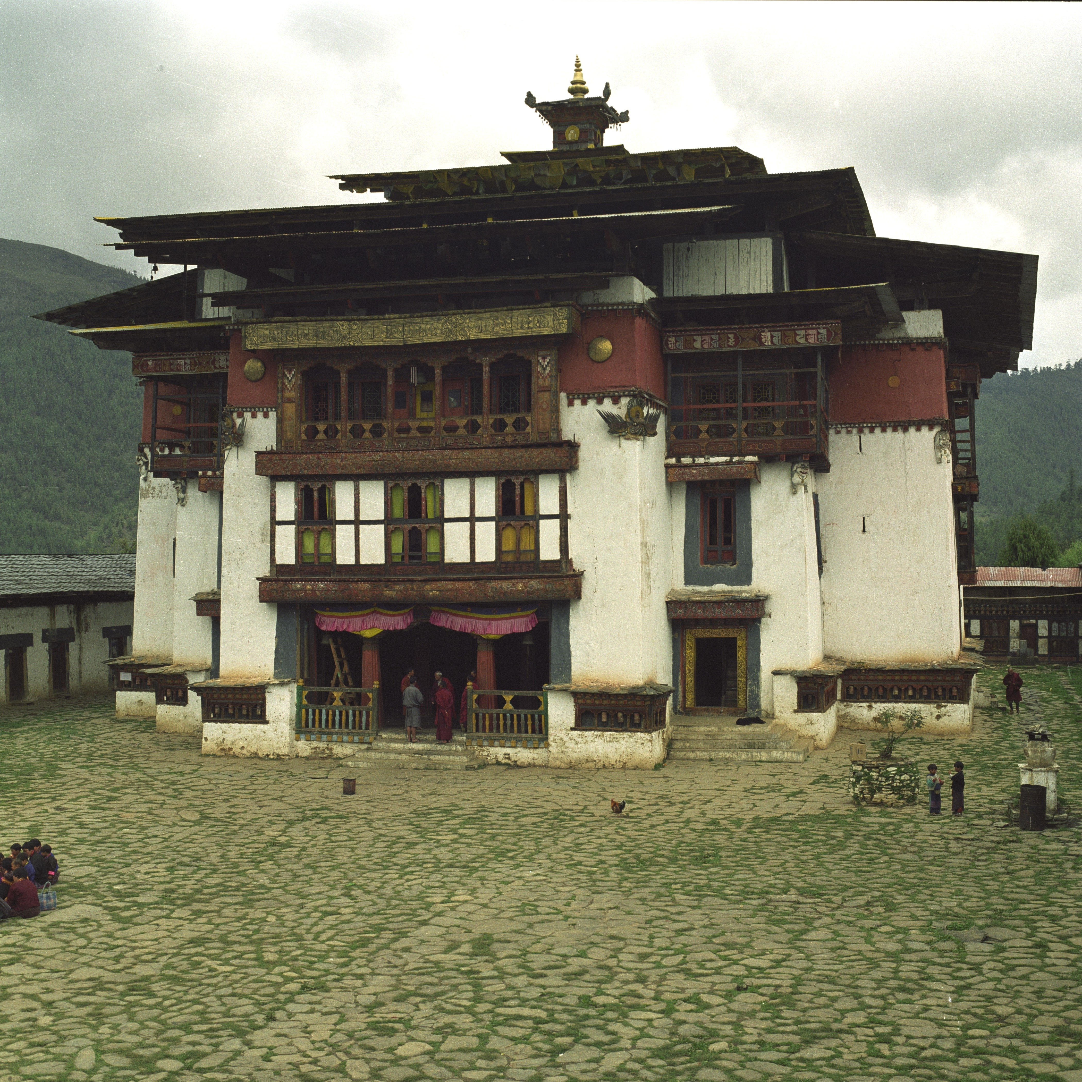 Gangtey Monastery Temple, Phobjikha, Bhutan. (before restoration). Alternate Names: Gangteng Monastery, Gangtey Gonpa, Gangteng Gonpa